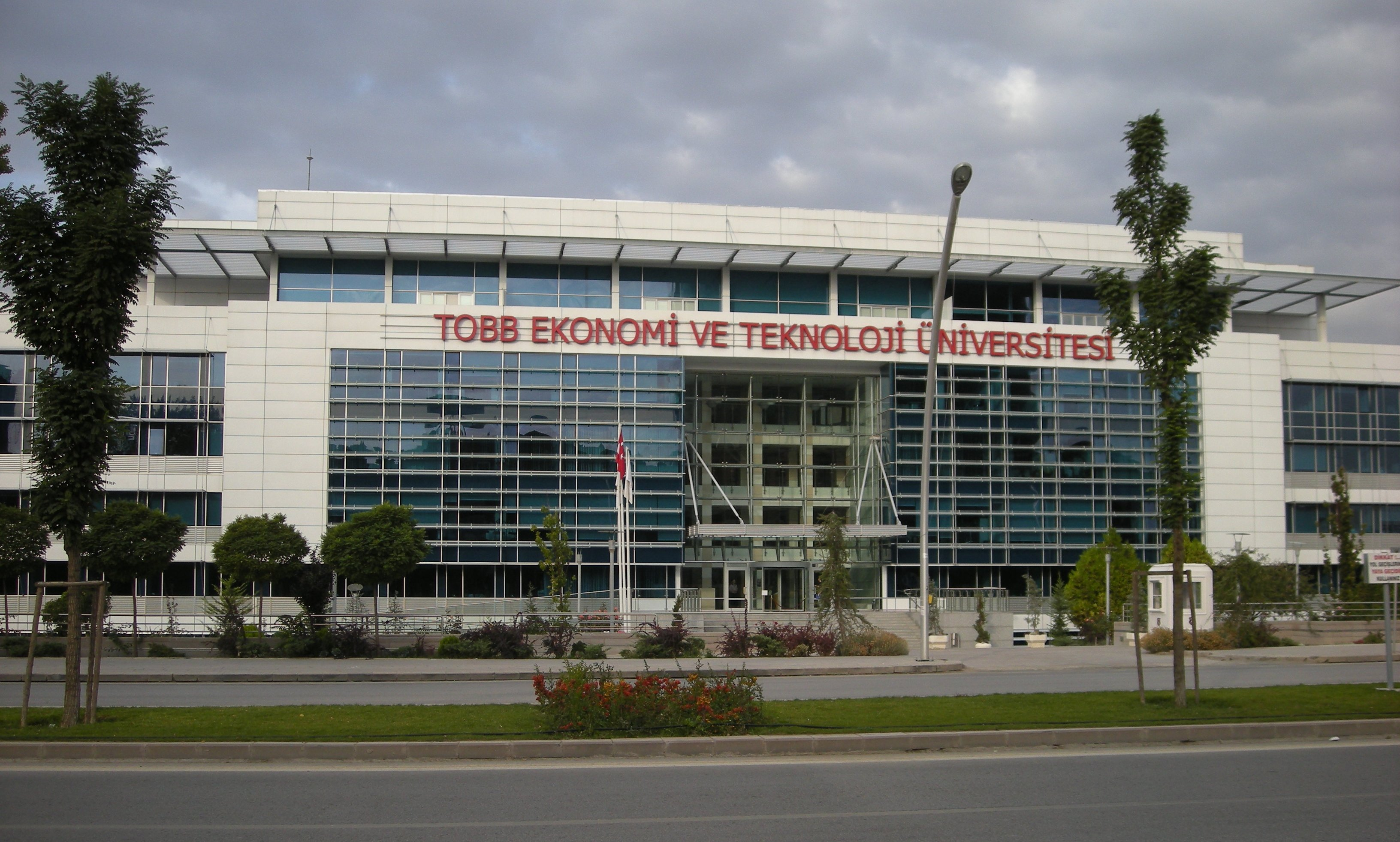 TOBB University of Economics and Technology